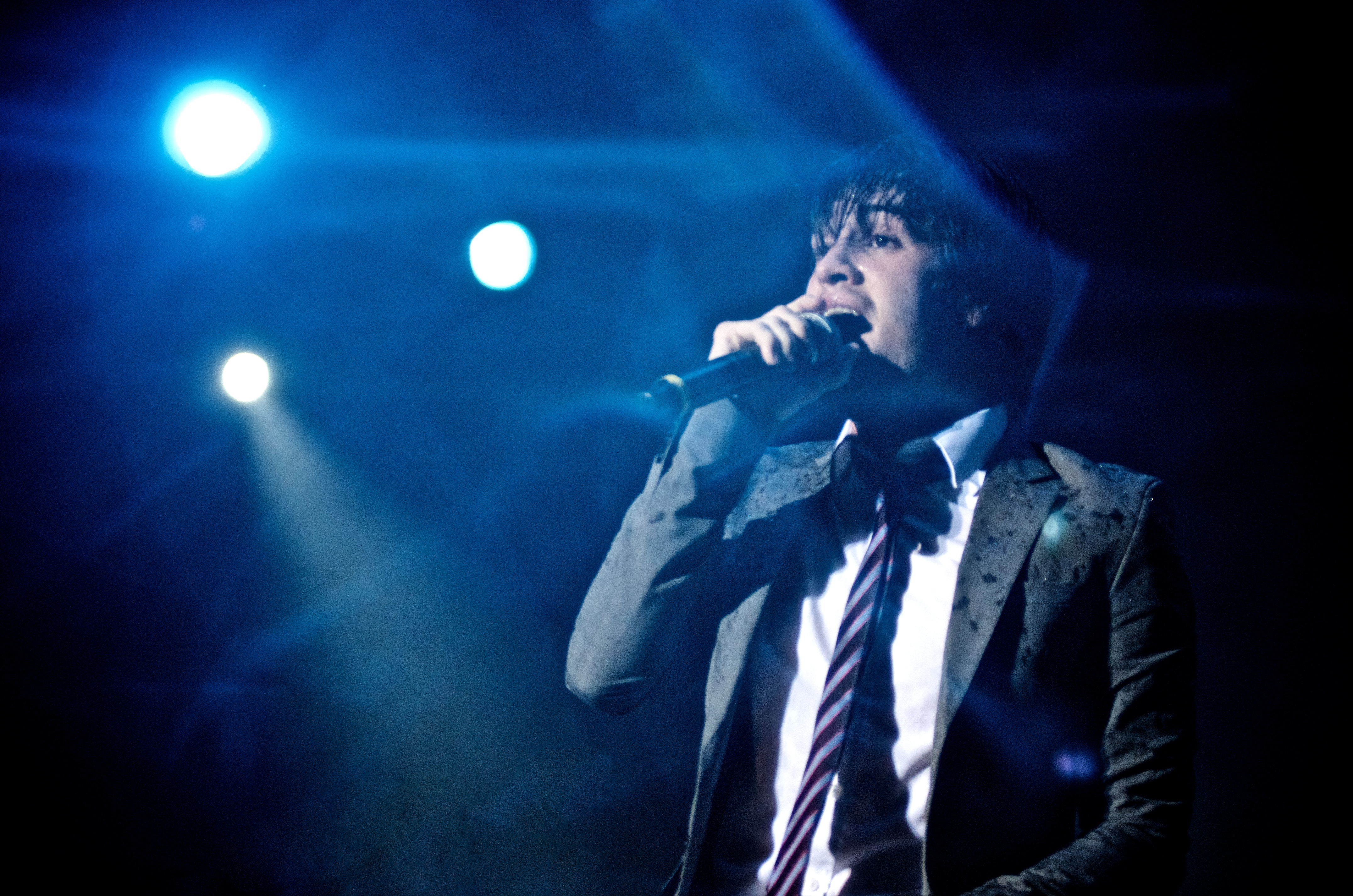 Panic at the Disco in Maquinária Festival, occurred in November 8 2009 at São Paulo, Brazil.